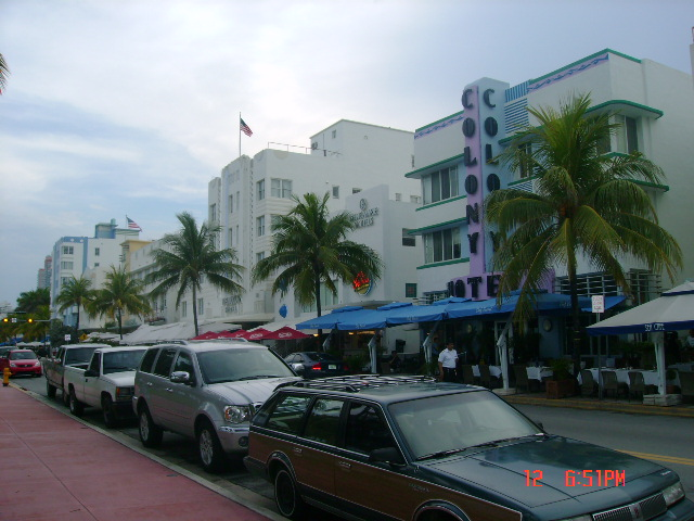 Art Deco architecture in Miami Beach. Taken June 2007.